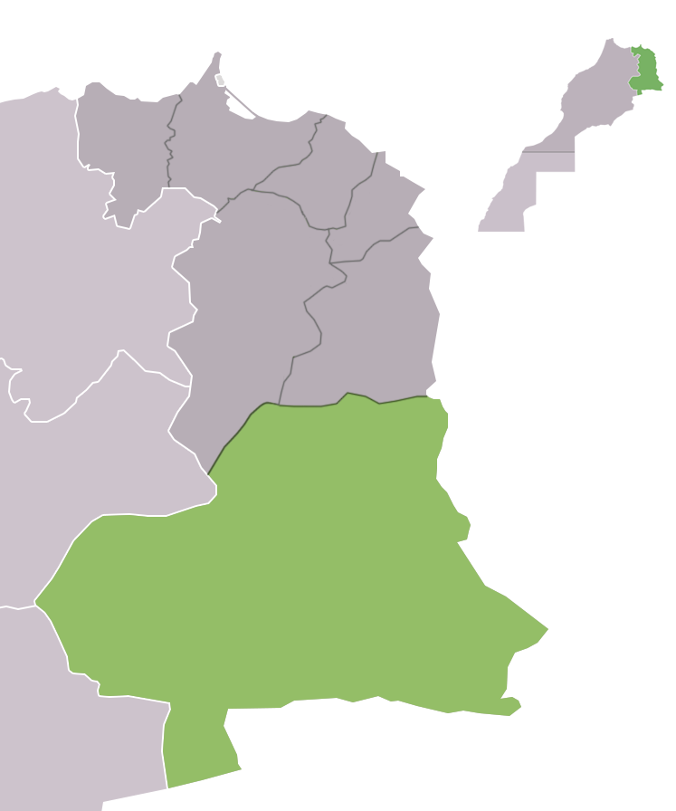 Figuig province, Oriental Region, Morocco